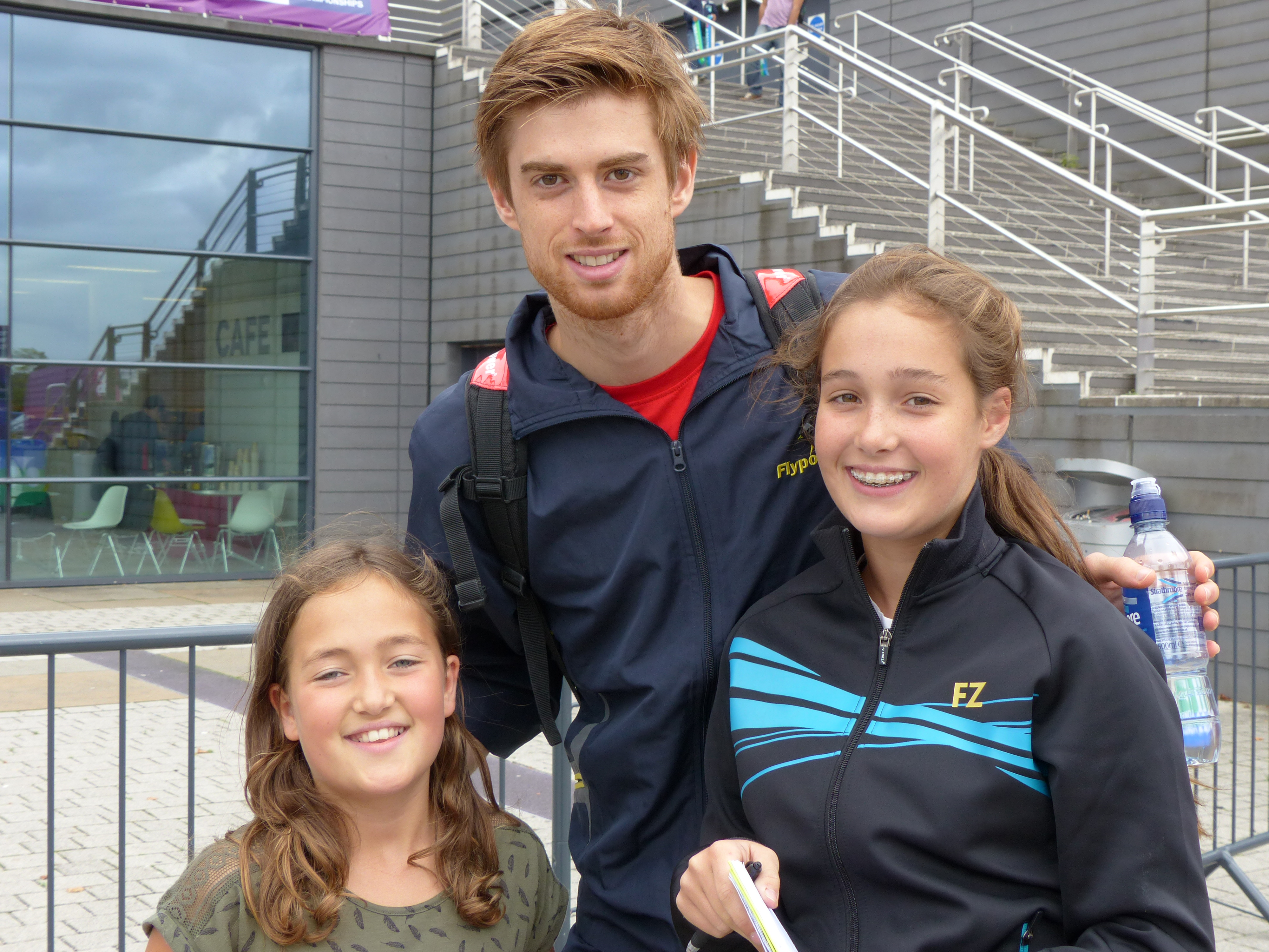 Lucas Corvée et les Sabatier